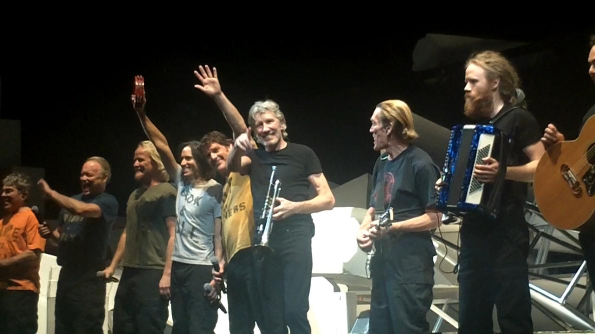 Roger Waters The Wall Live Kansas City 30 October 2010